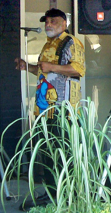 Lounge singer and radio personality, Lance Diamond performing at Nektar Martini Bar and Grille in Buffalo, New York on June 10, 2007.